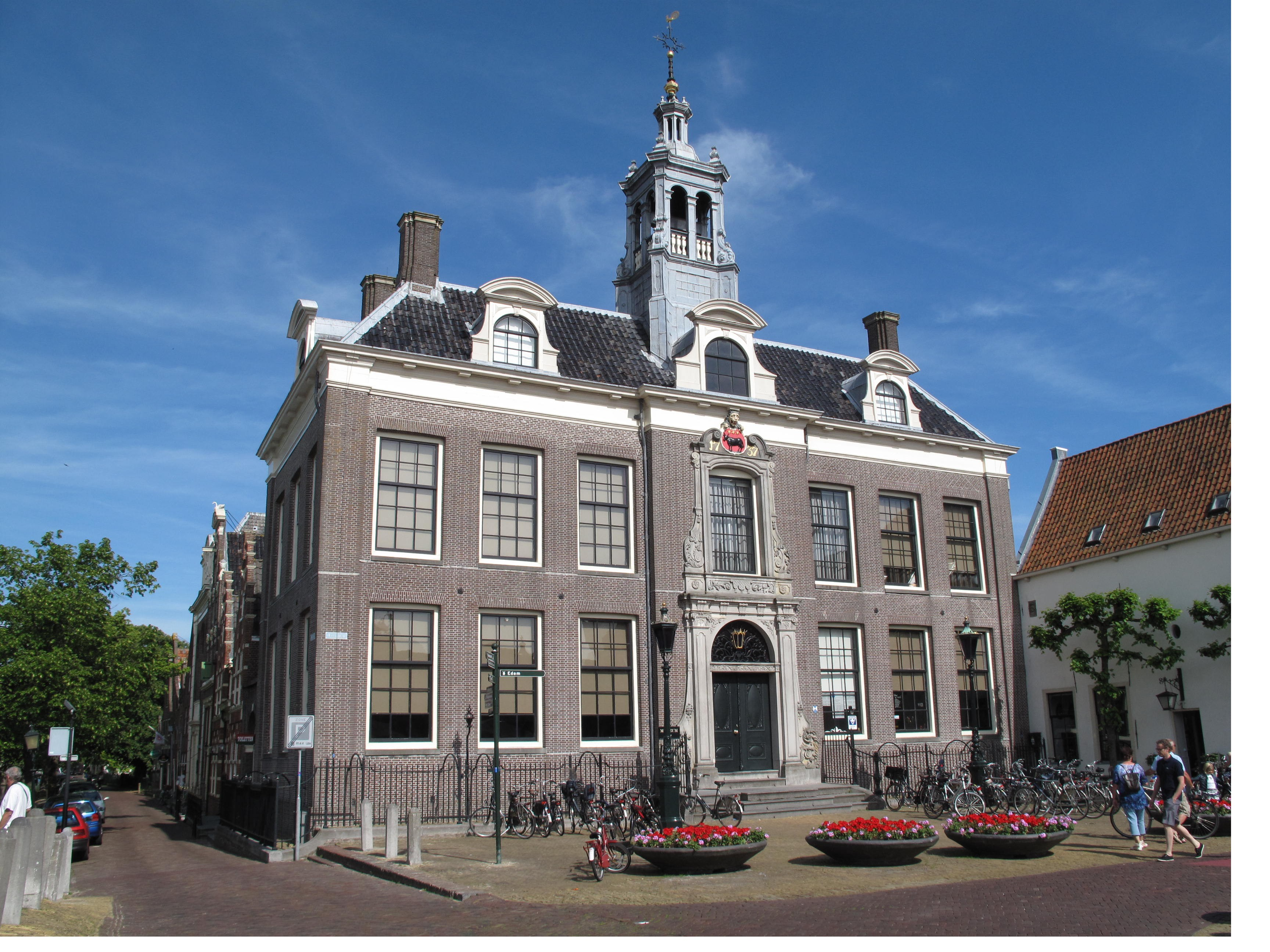 Edam, monumental building